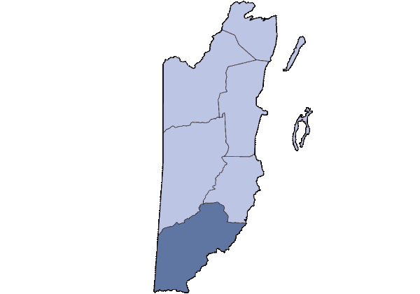 District of Toledo in Belize